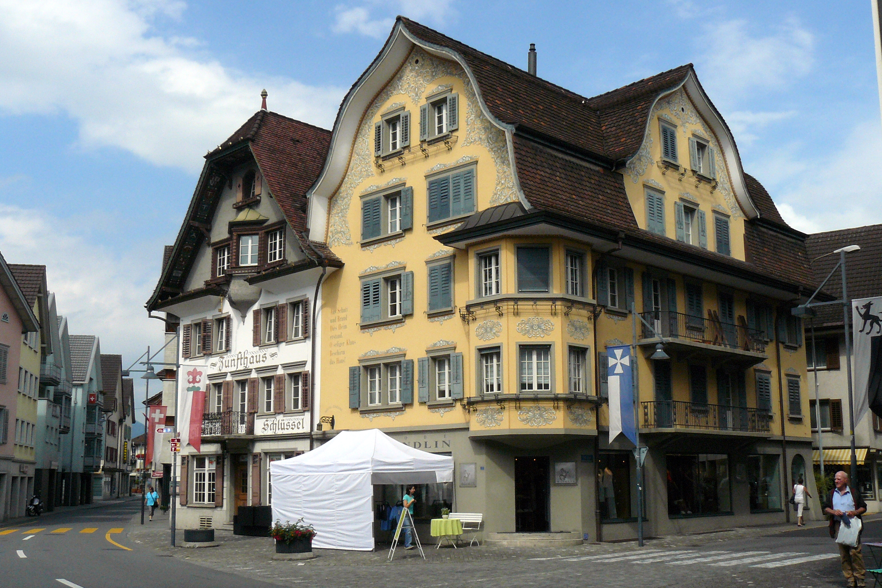 Old houses in the centre of Sarnen, Obwald, Switzerland